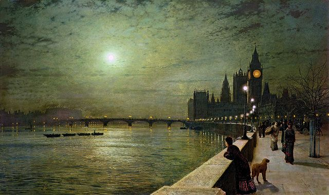 John Atkinson Grimshaw - Reflections on the Thames, Westminster, oil on canvas, Gallery: Leeds Museums and Galleries, Leeds, UK.